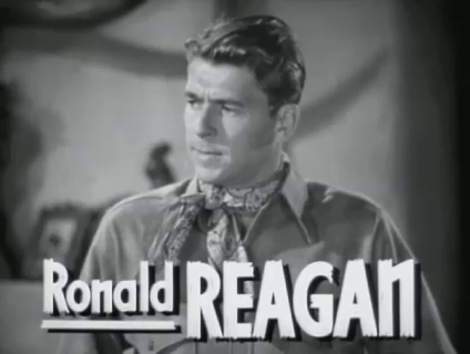 Ronald Reagan in The Bad Man, by Richard Thorpe (1941)